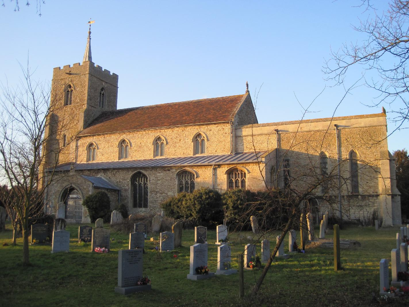 St John The Baptist's parish church, Somersham, Cambridgeshire (formerly Huntingdonshire), seen from the southeast